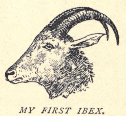 Douglas_Hamilton,_His_First_Ibex...12019